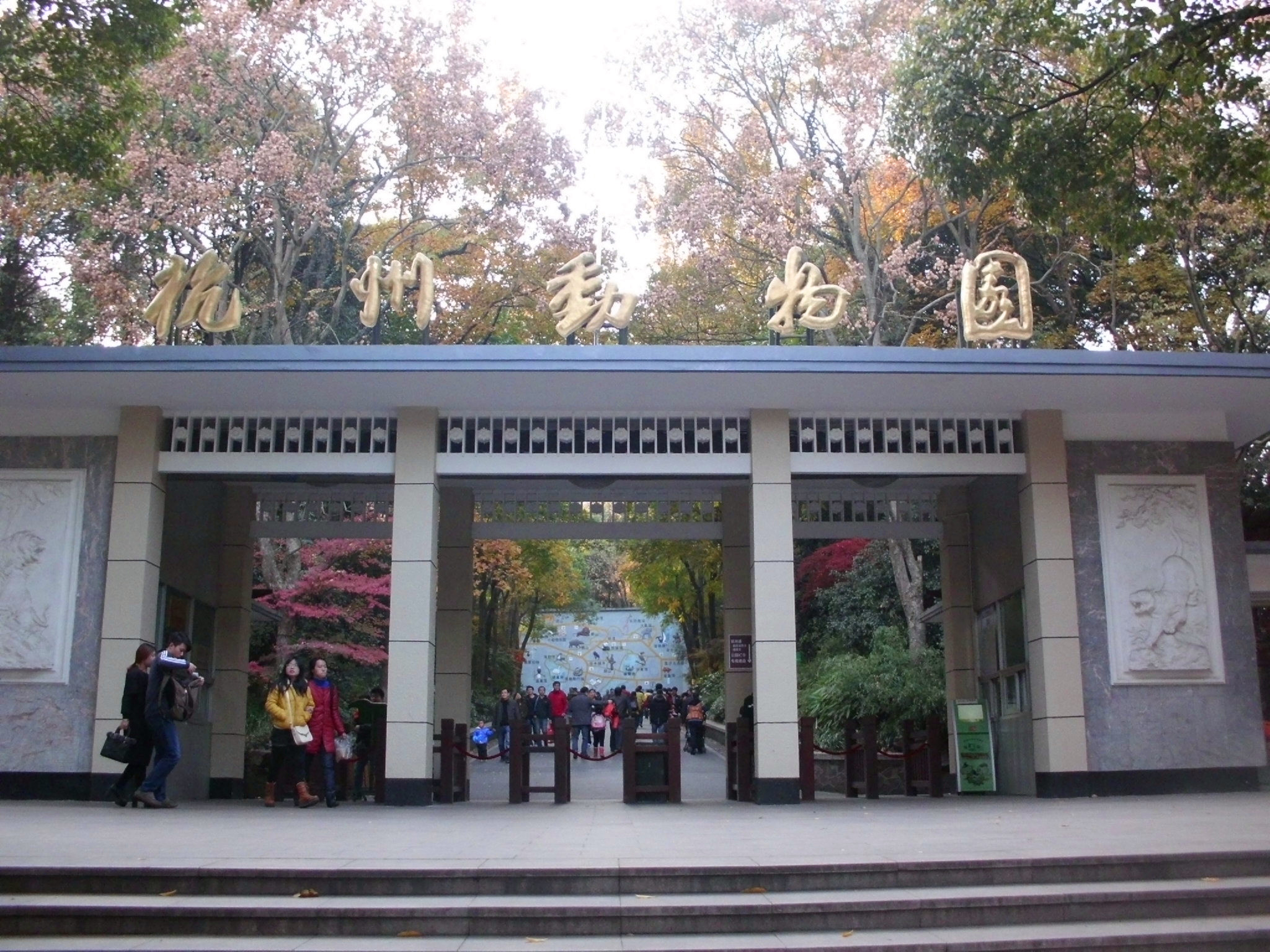 Hangzhou Zoo